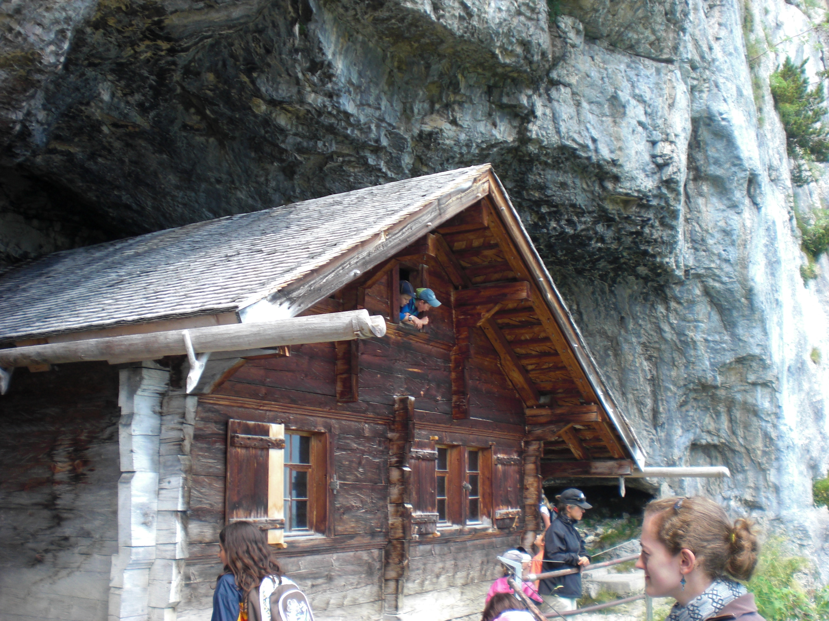 Small house in Wildkirchli near Schwende, AI, Switzerland